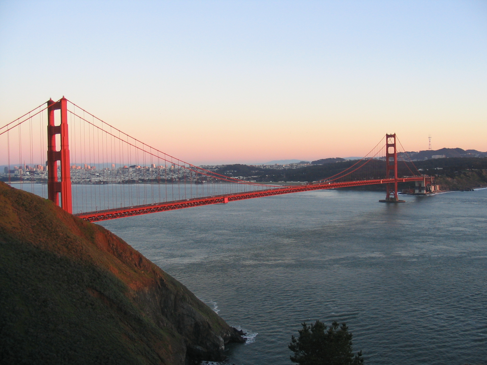 Golden Gate Bridge, from North-West, with San Francisco in the background